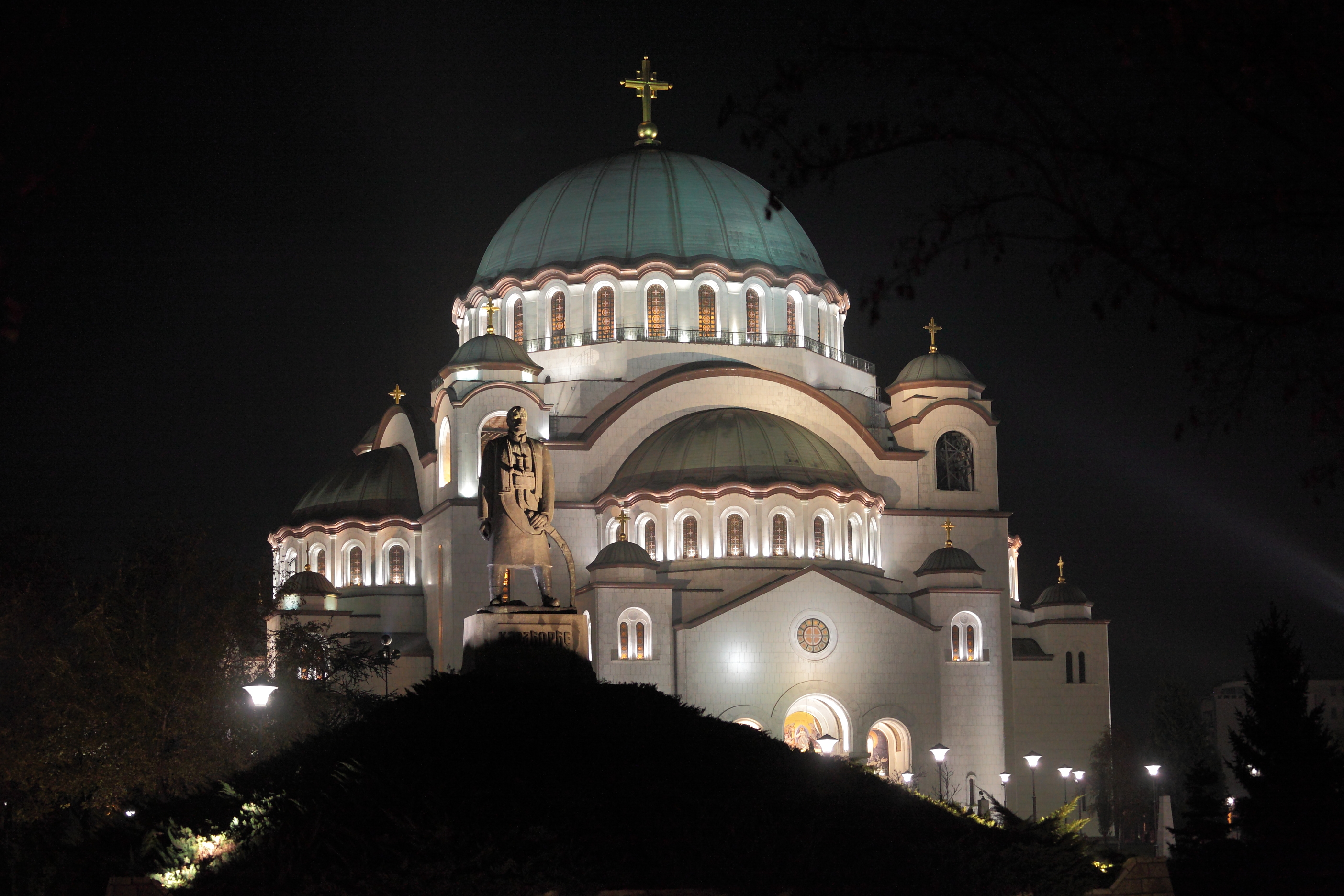 Saint Sava Cathedral , Belgrade, Serbia